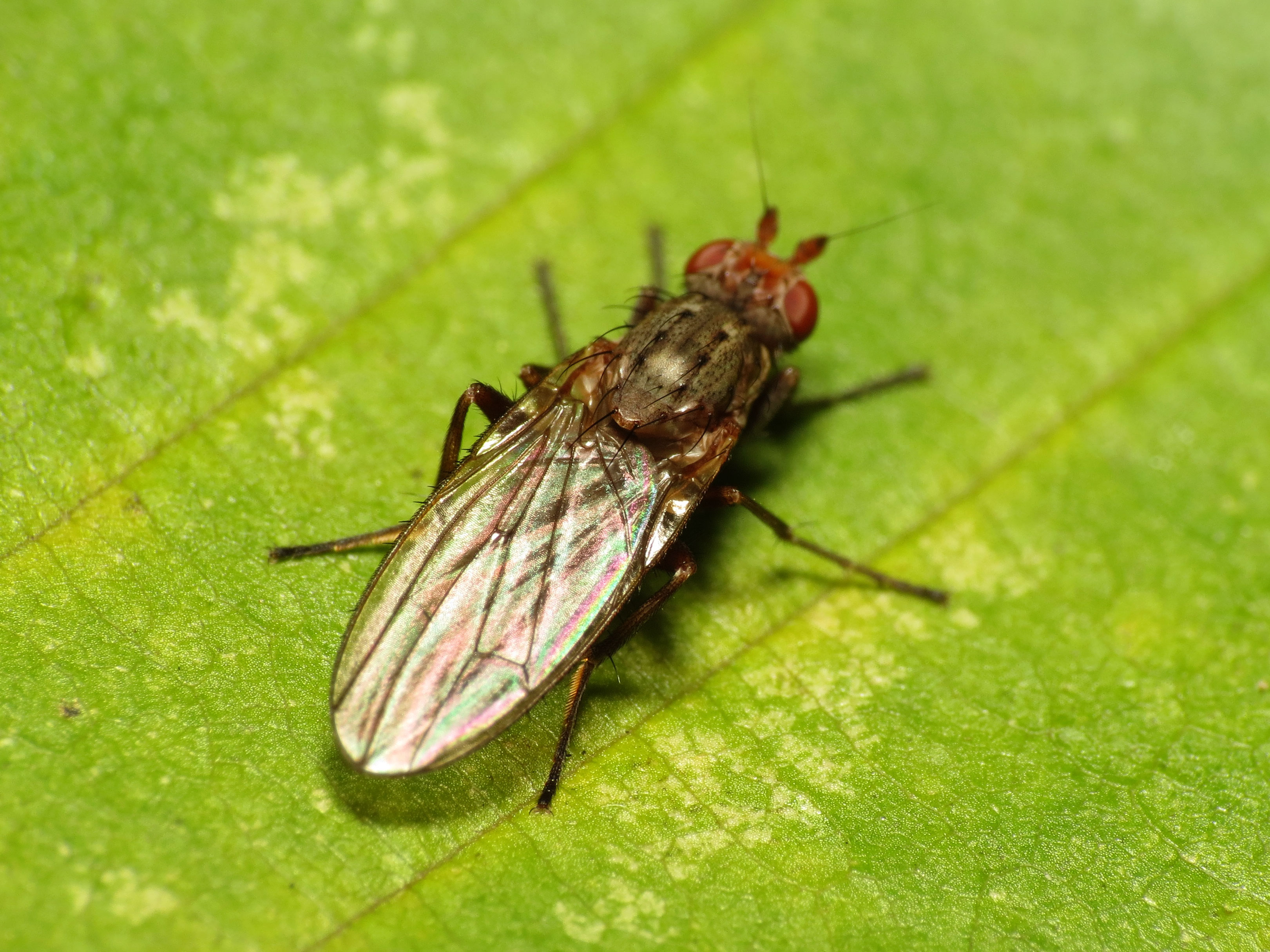 Scoliocentra sp.? Rock Creek Park, Washington, DC, USA.